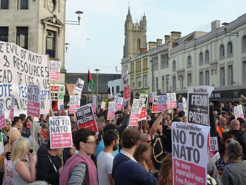 Anti-NATO protests in central Cardiff, Wales during the NATO Wales 2014 summit, before NATO leaders had dinner in Cardiff Castle